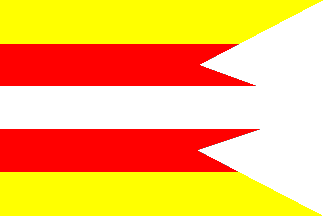 Plášťovce - flag